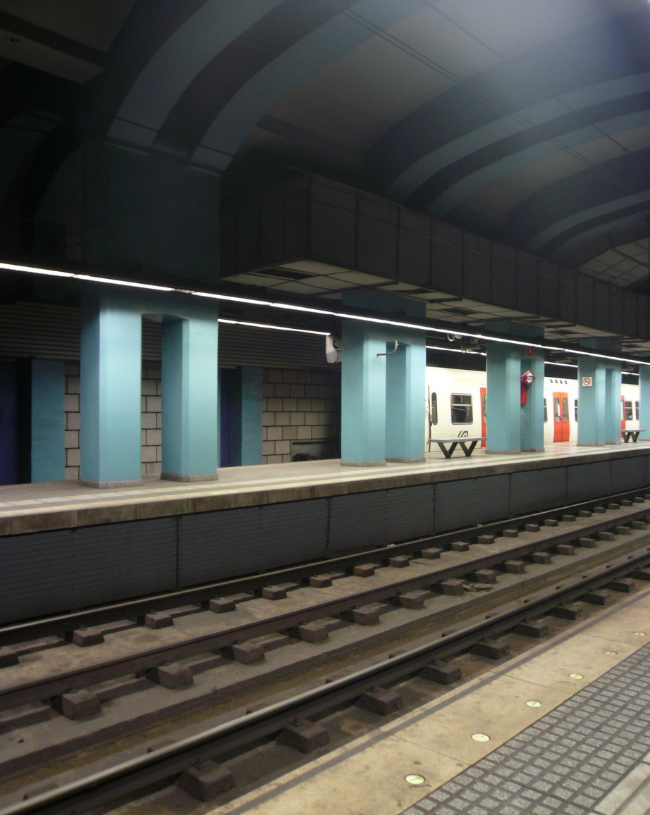 Gràcia station, Barcelona, Catalonia.